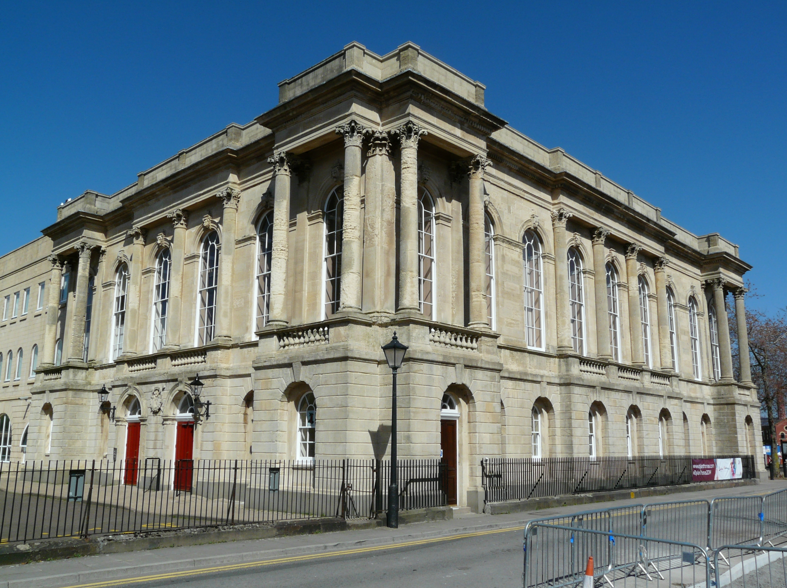 Swansea Old Town Hall, now the Dylan Thomas Centre